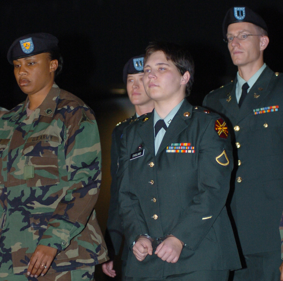 PFC Lynndie England, 372nd Military Police Company, is escorted by guards and her defense counsels, Capt. Jonathan Crisp and Capt. Katherine Krul, from Fort Hood’s Williams Judicial Center, Tuesday night (27 September, 2005) after she was sentenced to three years for prisoner abuse at Abu Ghraib. The Department of the Army's Office of the Chief of Public Affairs (OSPA).